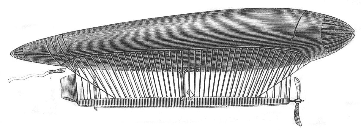 caption: "Das lenkbare Luftschiff von Ch. Renard und A. Krebs."